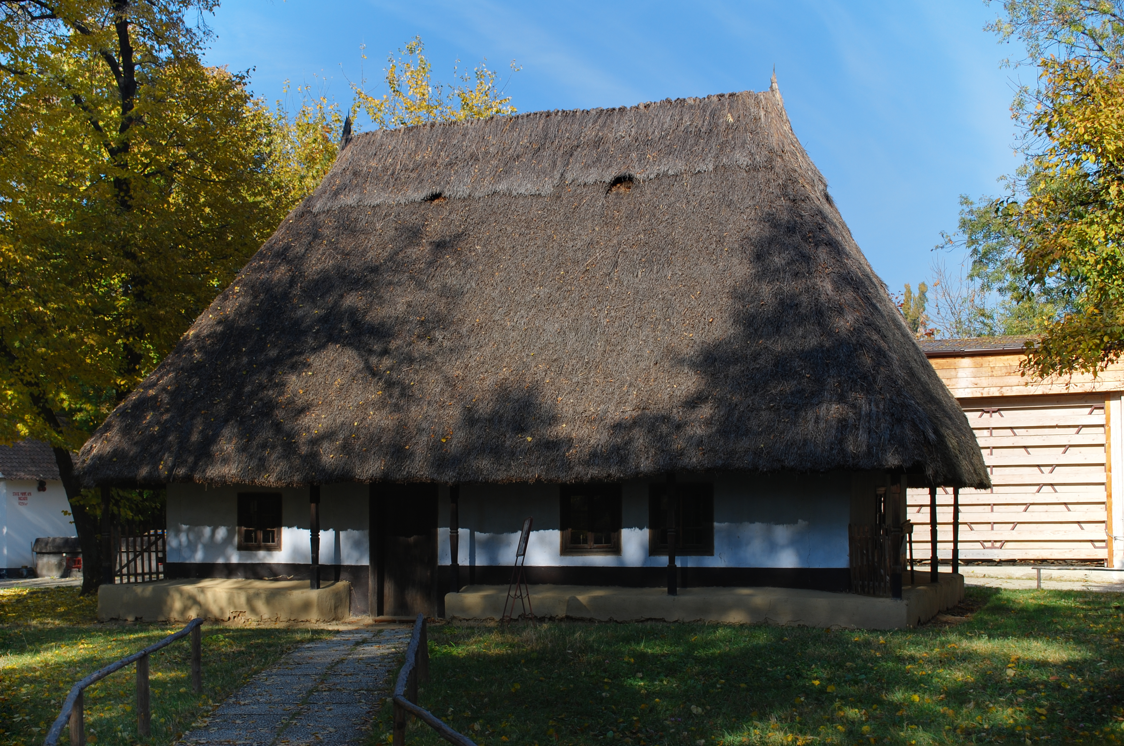 Homestead from Dumbrăveni, Suceava County, in the Village Museum in Bucharest, Romania